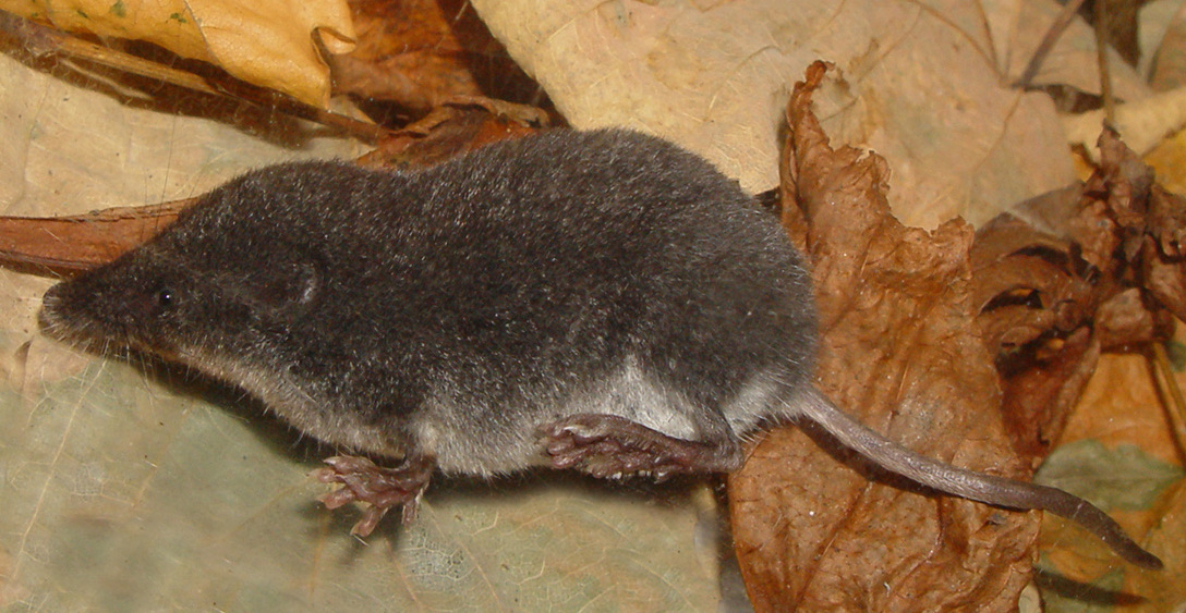 Southern water shrew (Neomys anomalus) in Innsbruck, Austria